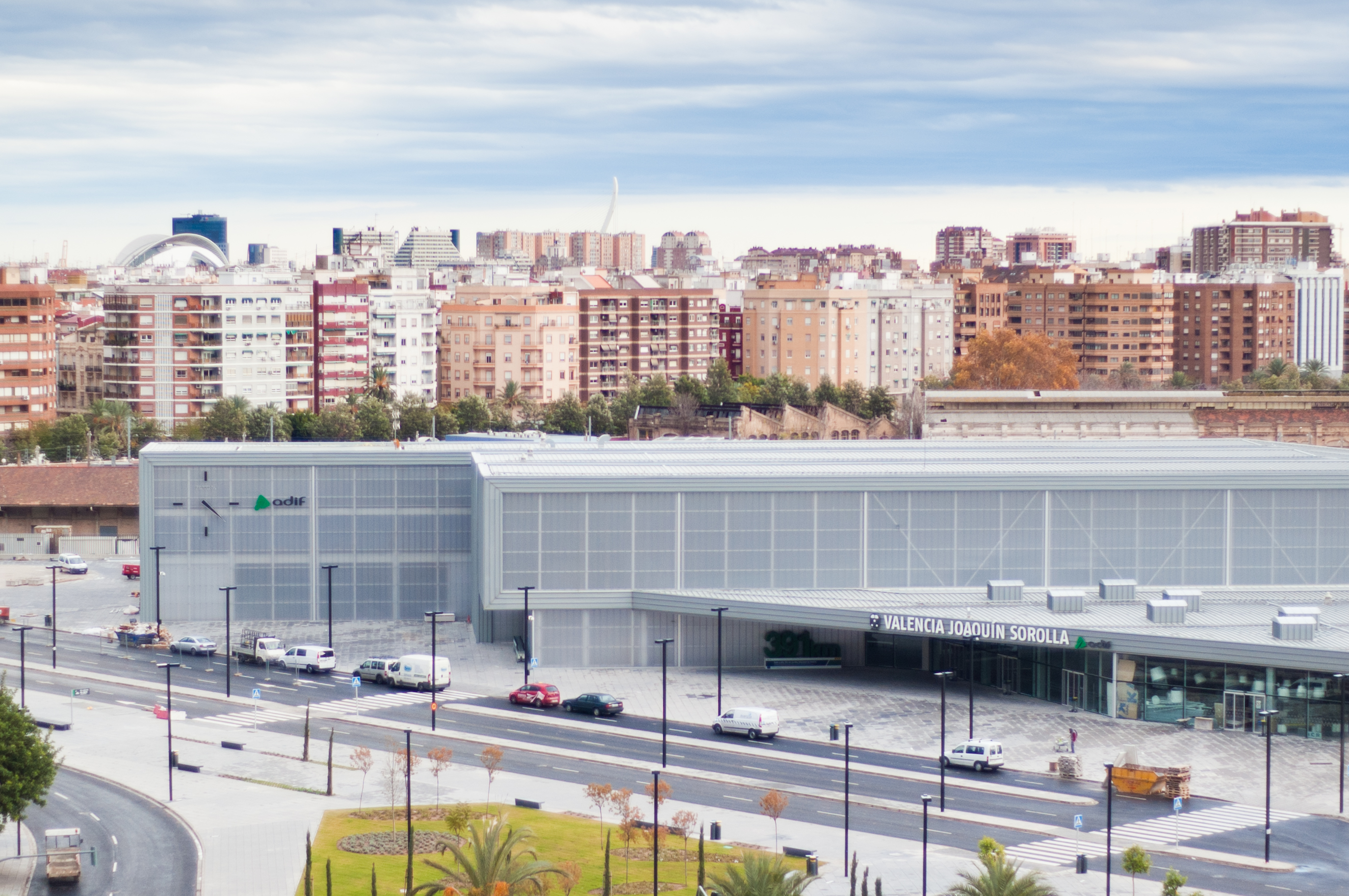 Valencia Joaquin Sorolla station is a provisional train station where the 'AVE' (denomination of the high speed trains in Spain) arrives from Madrid